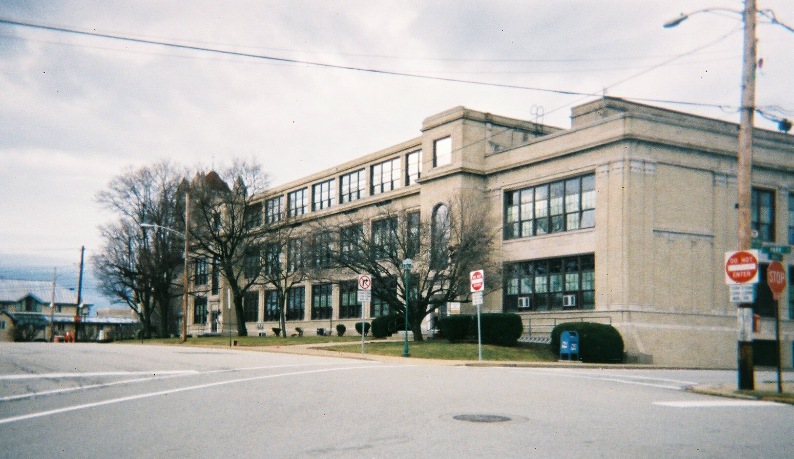 Greensburg Salem Middle School (originally Greensburg Salem High School), Greensburg, Pennsylvania. The building's street address is 301 North Main Street. This photo was taken from the intersection of Academy Hill Place and North Maple Avenue. Architect: Maurice Kressely. Built 1927.